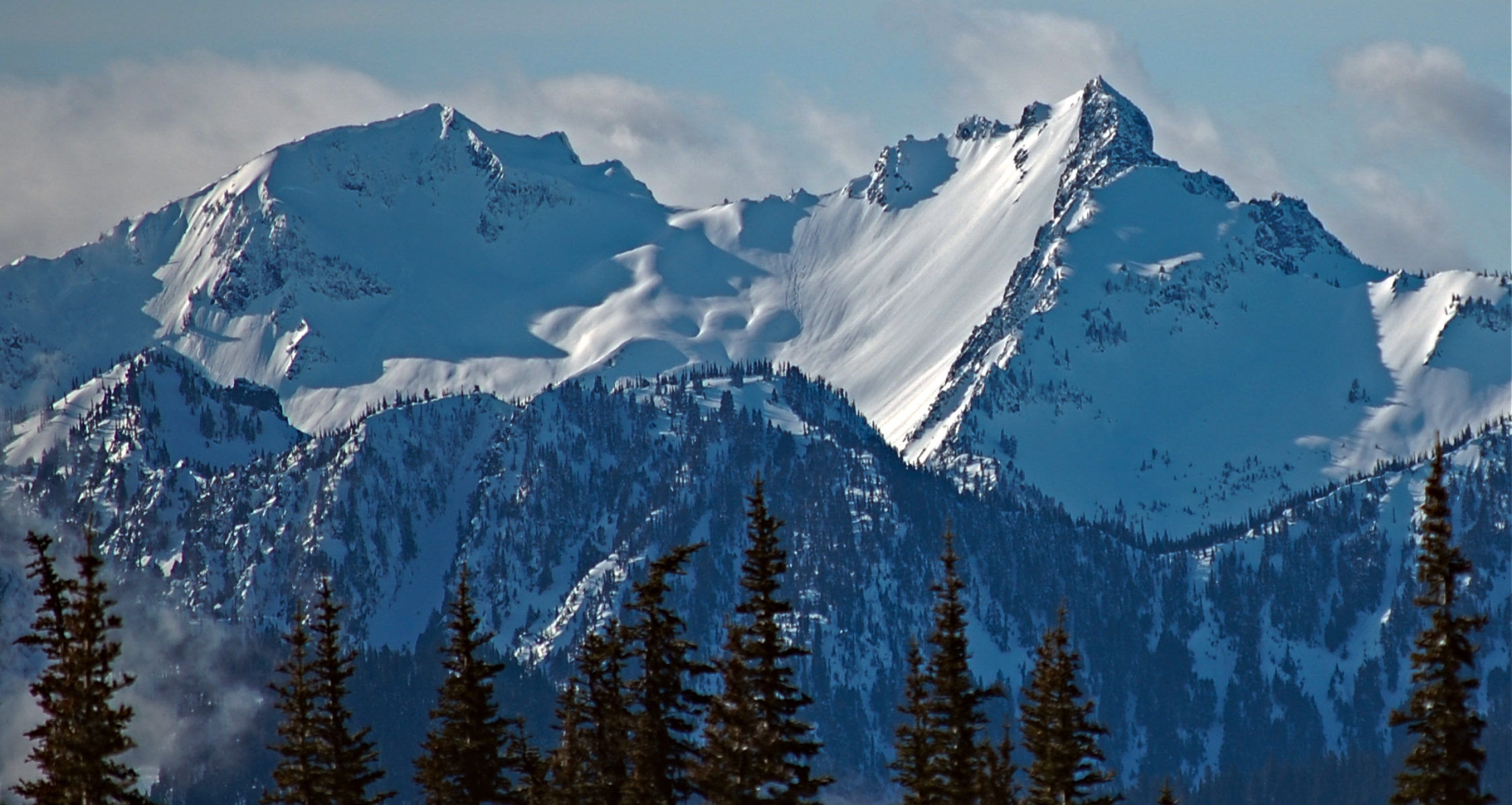 Mount Appleton in winter